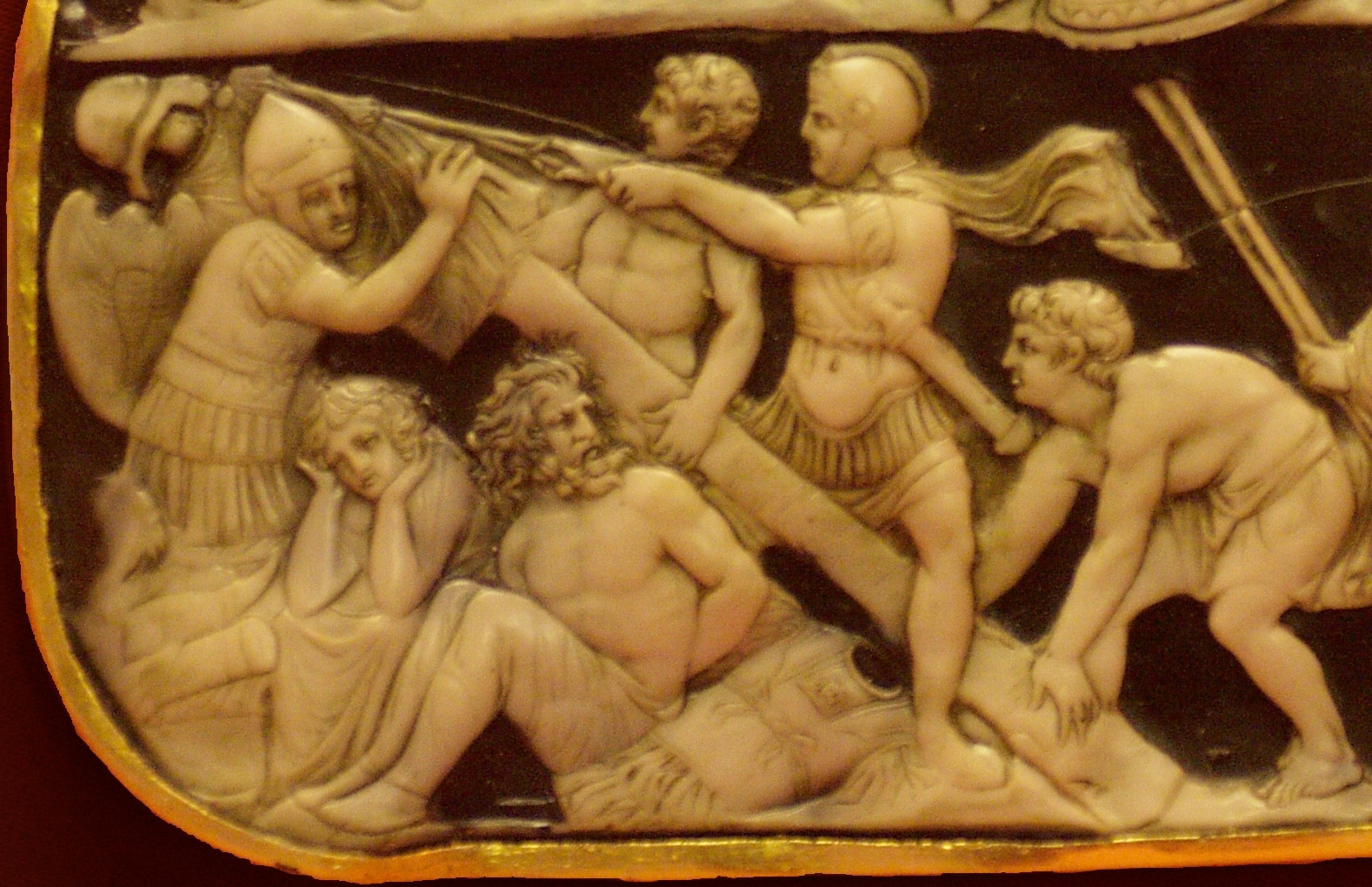 Gemma Augustea, a depiction of Emperor Augustus surrounded by goddesses and allegories. Collection of Greek and Roman Antiquities in the Kunsthistorisches Museum, Vienna. Roman, 9-12 CE. Two-Layered onyx. H: 19 cm. Setting: gold frame, reverse side in ornamented open-work; German, 17th century. AS Inv. No. IX A 79. This is a copy in Museum Carnuntum